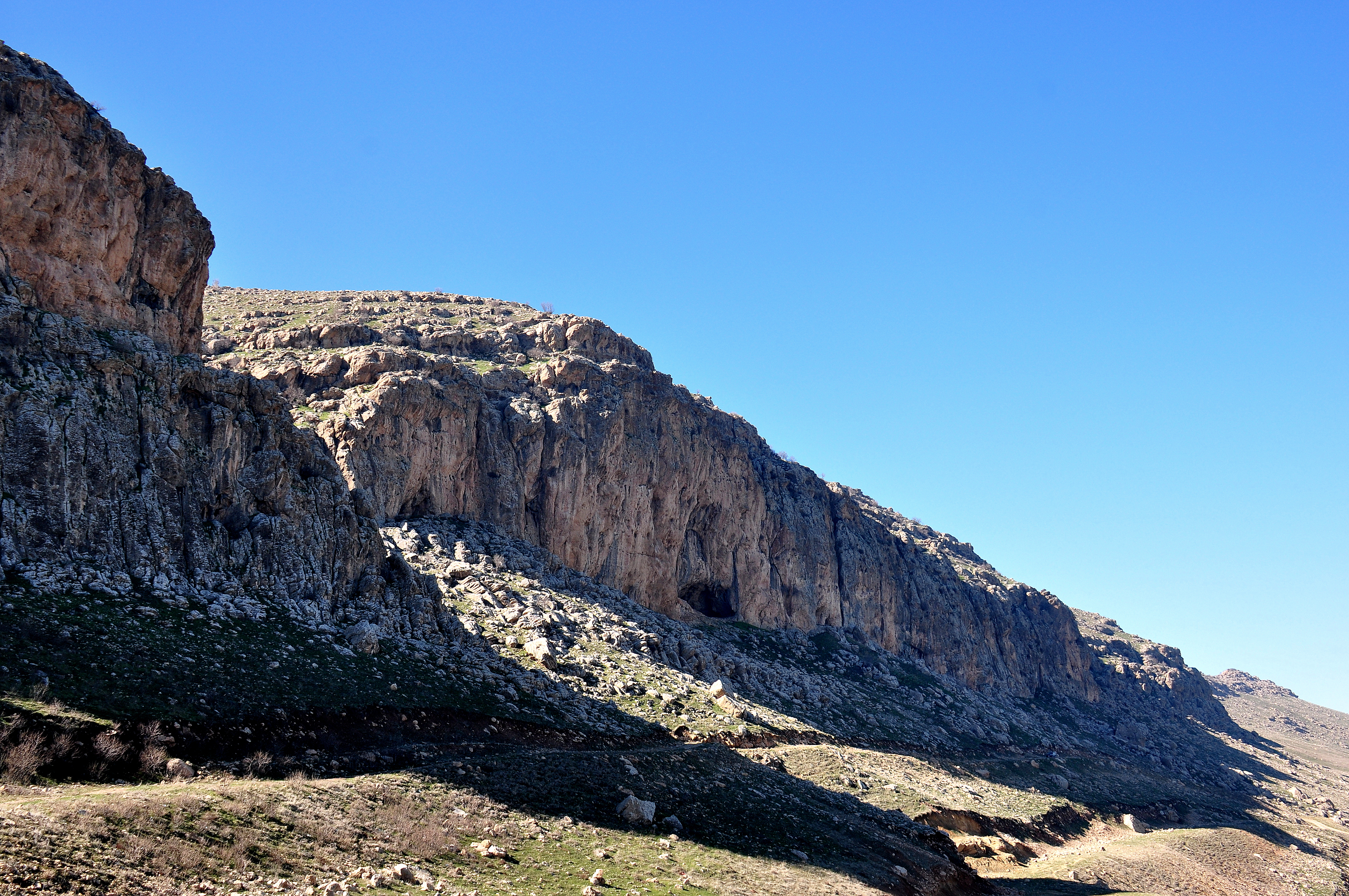 General overview of the Hazar Merd caves. The large defect within the mountain represents the largest cave.